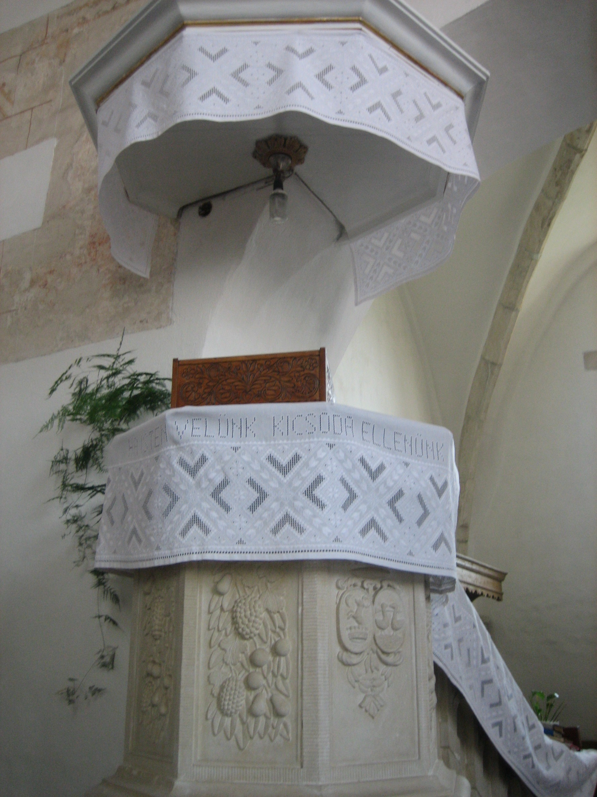 The pulpit of the reformed church in Luncani, Cluj.